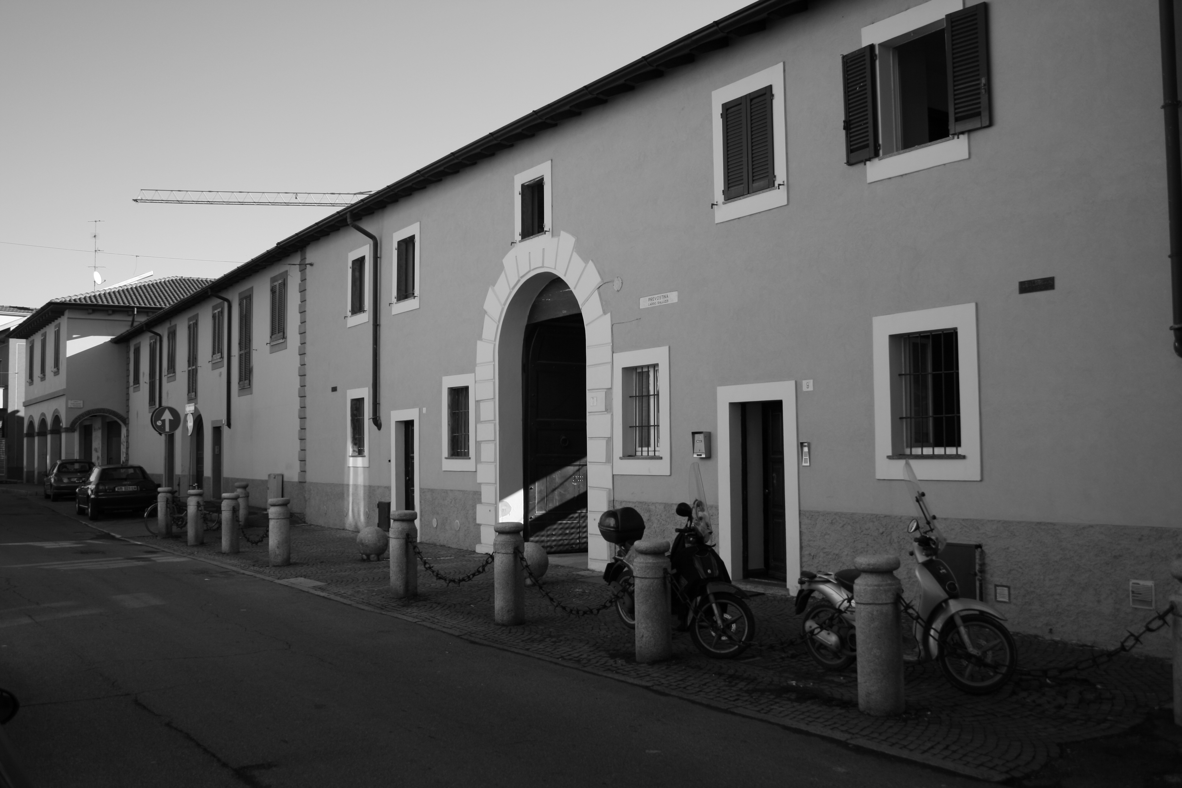 The "Prevostina" of Barbaiana, built in the 1575 is a typical farmstead from Lombardy in Italy.